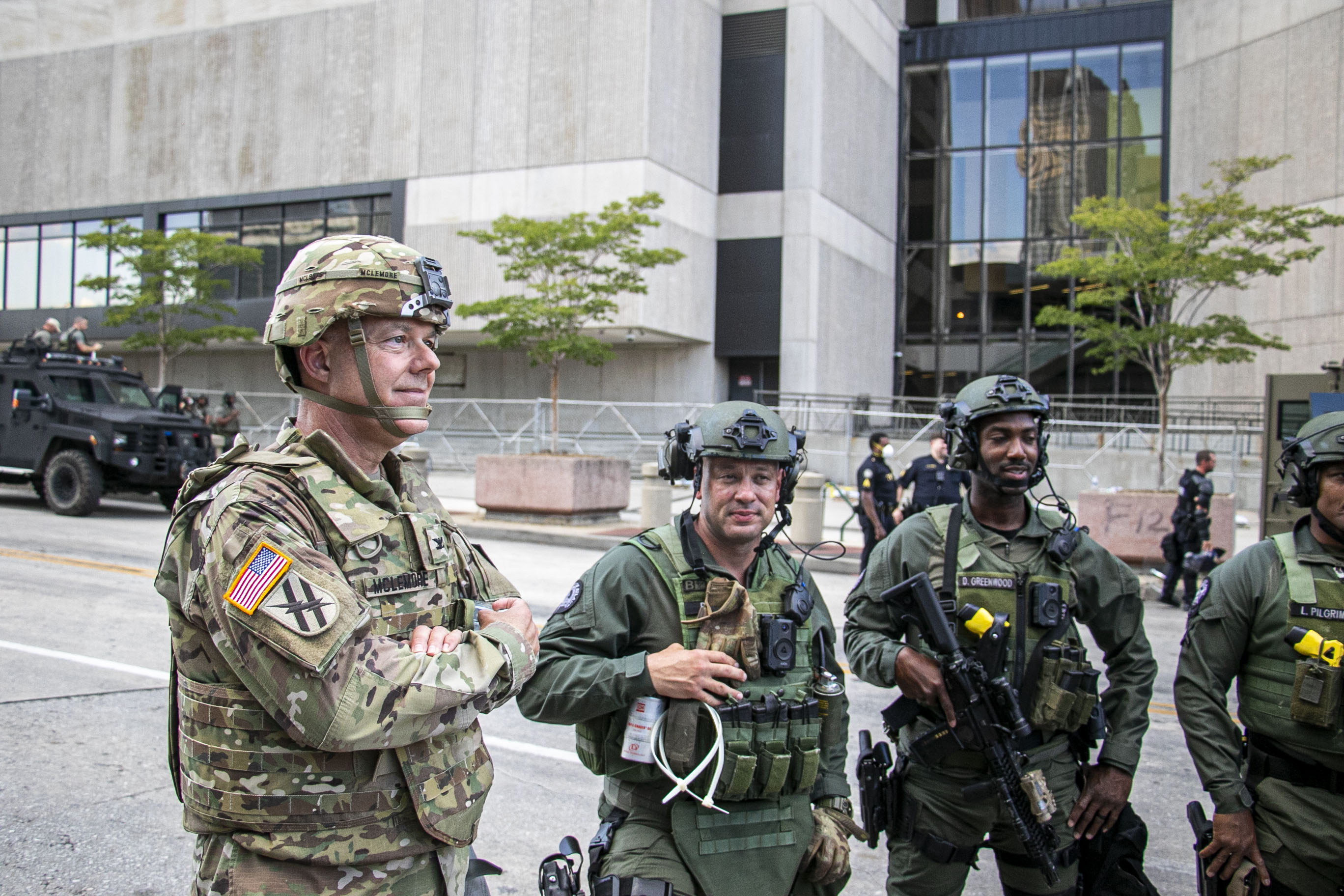 Colonel Alexander McLemore, brigade commander of the Marietta-based 201st Regional Support Group, talks to officers from Atlanta Police Department SWAT at Centennial Olympic Park in Atlanta on May 31, 2020. Georgia National Guardsmen provided additional security around Atlanta in partnership with local and state law enforcement. (U.S. Army National Guard photo by Spc. Tori Miller)